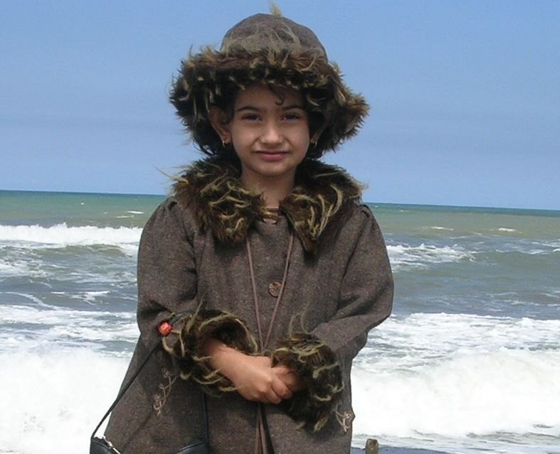 Mitra, a four years old girl stands at front of Caspian Sea, Babolsar, Mazandaran, Iran.